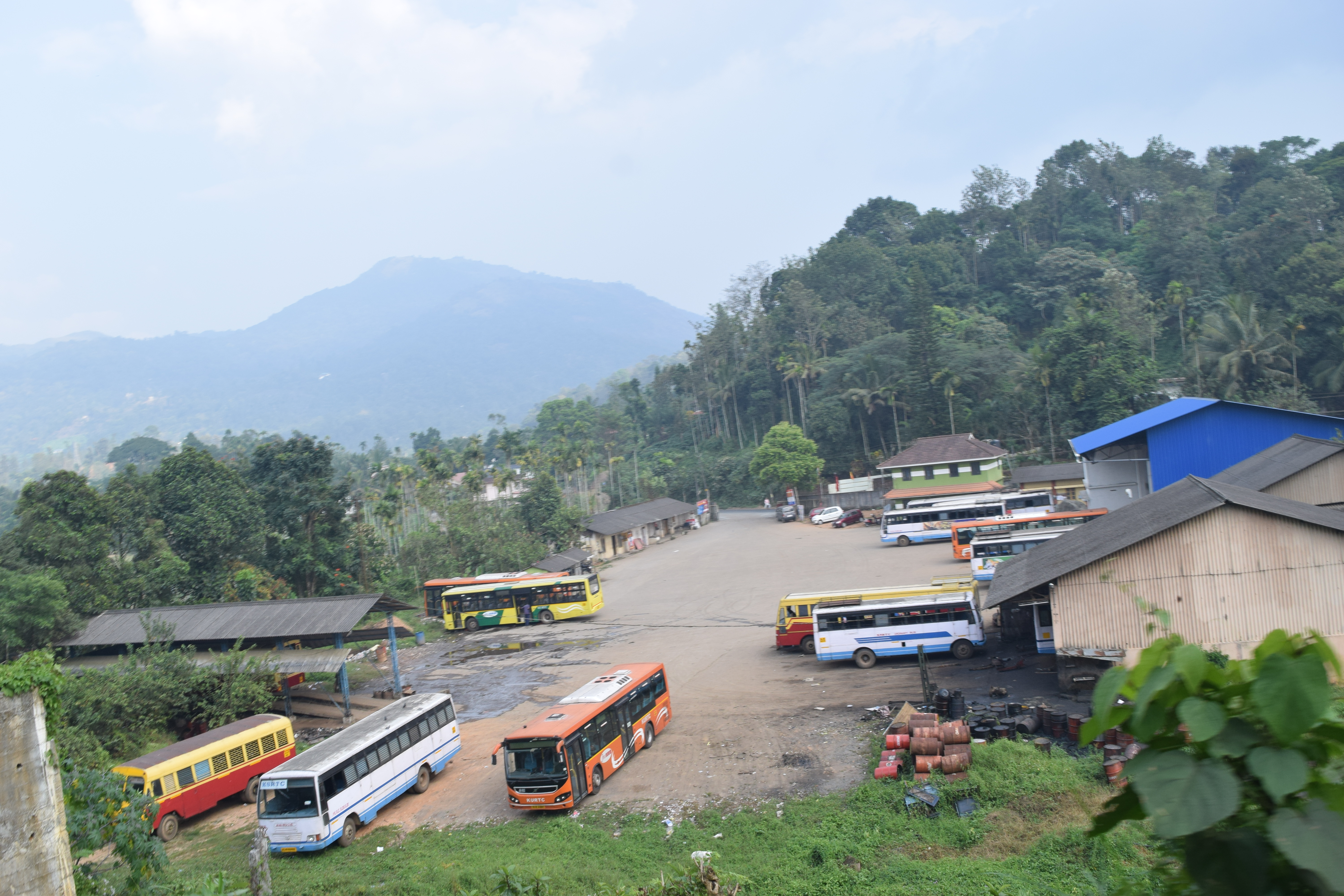 Vaithiri KSRTC Bus Station